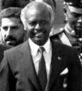 Canaan Banana in Eighth Summit of the Non-Aligned Movement